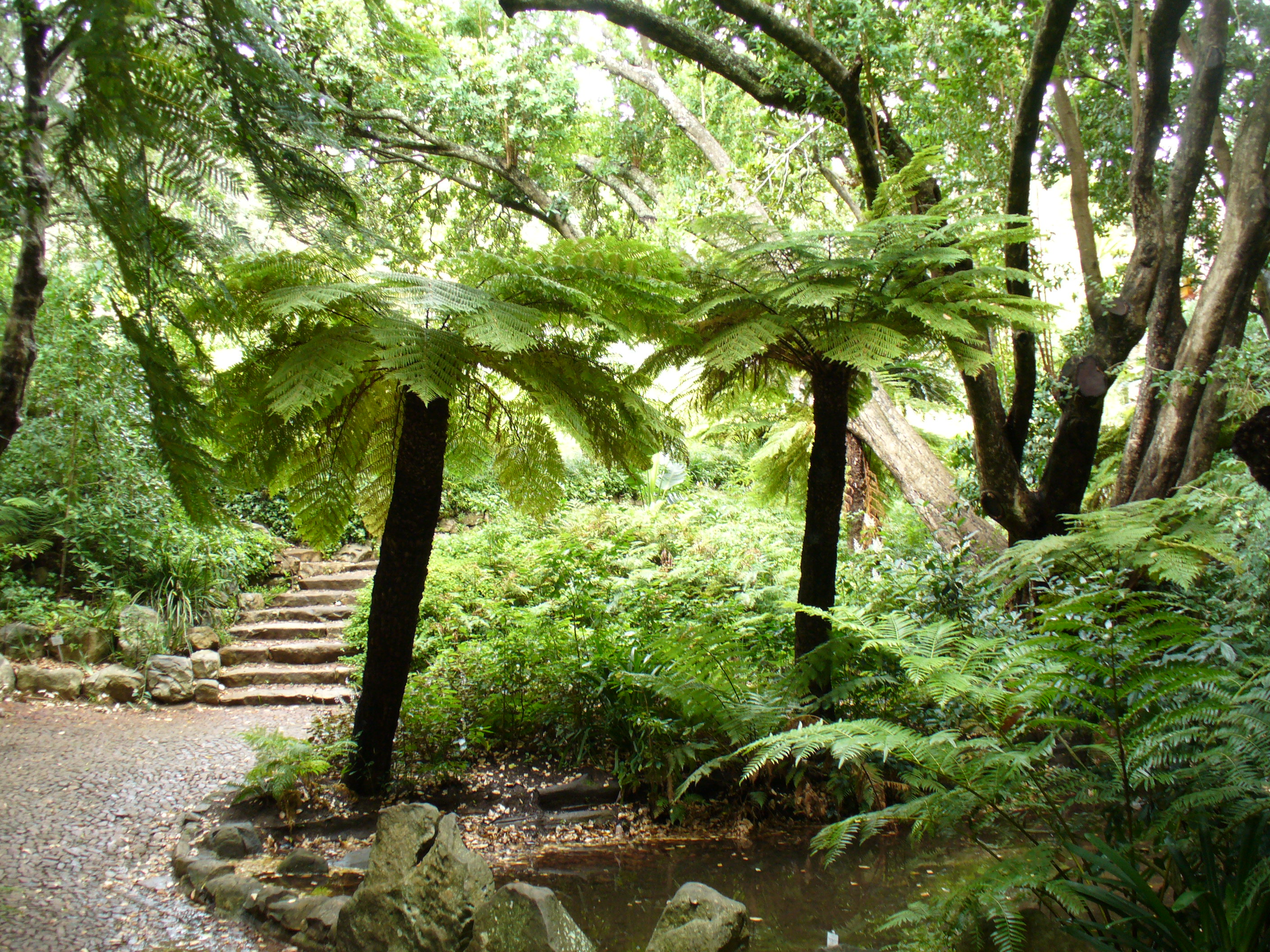 Common Tree-fern